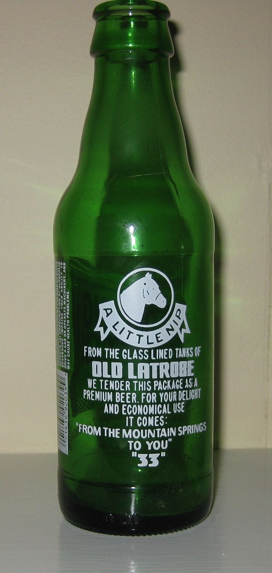 Original/older Rolling Rock beer bottle; image of original 33-word slogan printed on the back of every bottle.